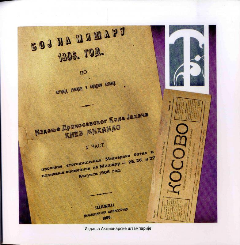 Издања Акционарске штампарије